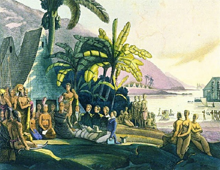 Entrevue de l'expedition de M. Kotzebue avec le roi Tammeamea dans l'ile d'Ovayhi, Iles Sandwich. Description [1827]. 1 print : lithograph, hand col.; 20.5 x 26.3 cm. Collection Rex Nan Kivell Collection ; NK657. Notes Pl. no. 18 of: Vues et paysages des regions equinoxiales / Louis Choris.